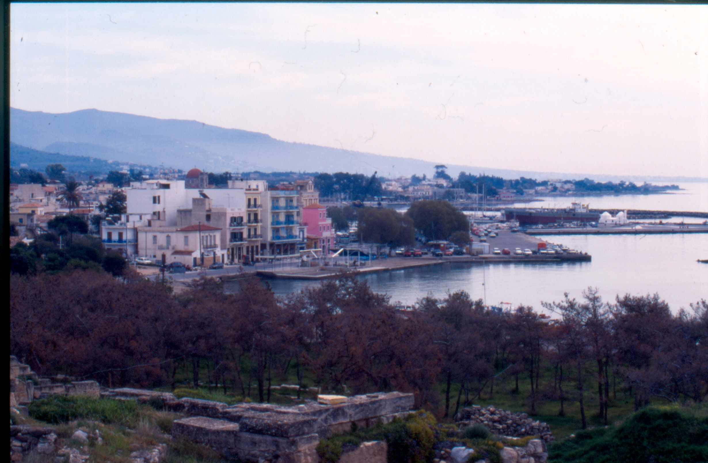 Aegina town. Photo Chris Nyborg 1994